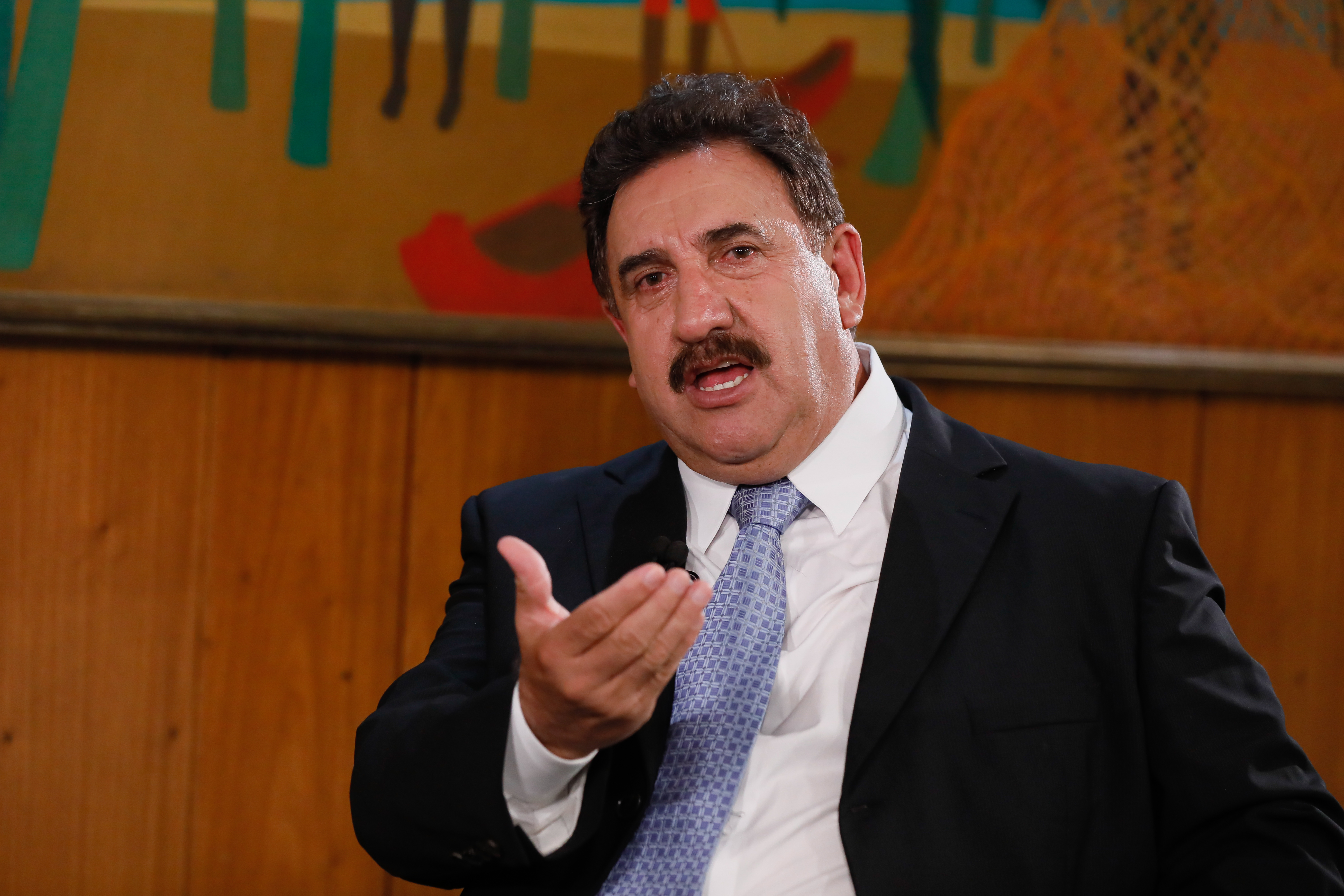 (Brasília - DF, 19/03/2020) Entrevista concedida ao apresentador Ratinho do SBT. Foto: Isac Nóbrega/PR